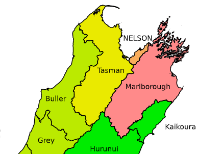 Map of upper South Island, New Zealand, showing the location and size of Nelson City Council's area (in orange).